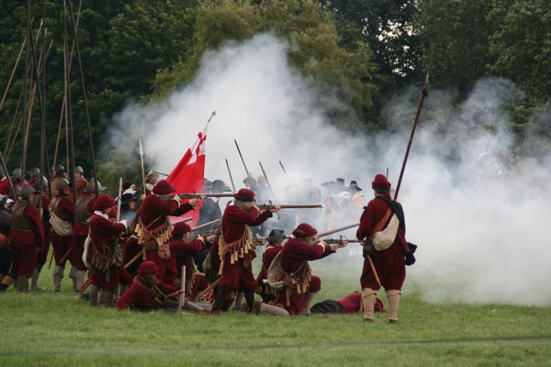 Scene from a historical re-enactment of the Battle of Naseby staged at English Heritage's Festival of History 2005 at Kelmarsh Hall. This image shows some of the Royalist forces. Note the mixture of pikemen and musketeers.